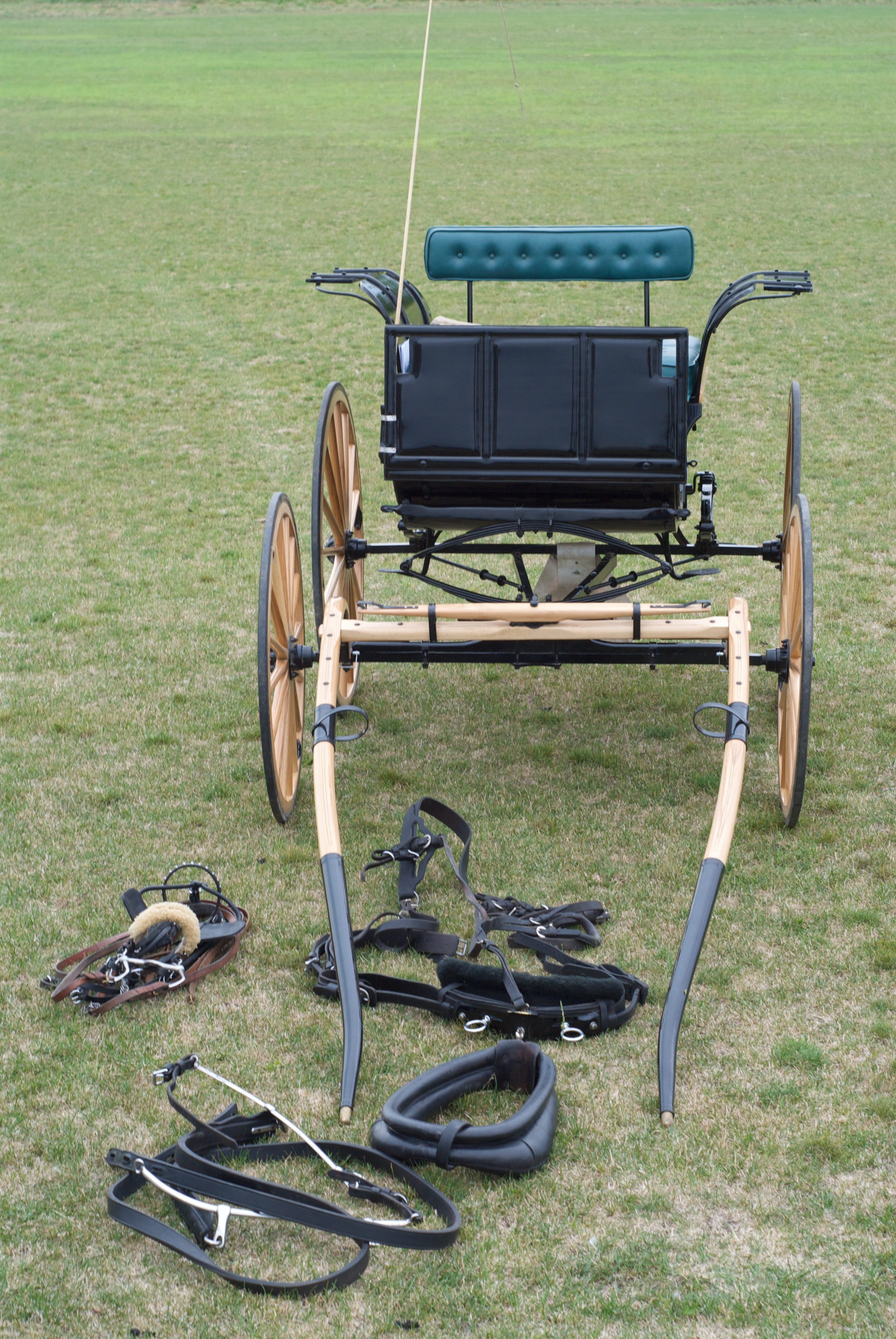 My friend's carriage and harness, all nicely laid out on the grass, as he was getting ready to participate in the 2008 Polo Classic in Maple Plain, MN. The carriage was built by another friend of mine -- Steve Waddell, the owner of Chamberlain Hills Carriage Works in Buffalo, MN.